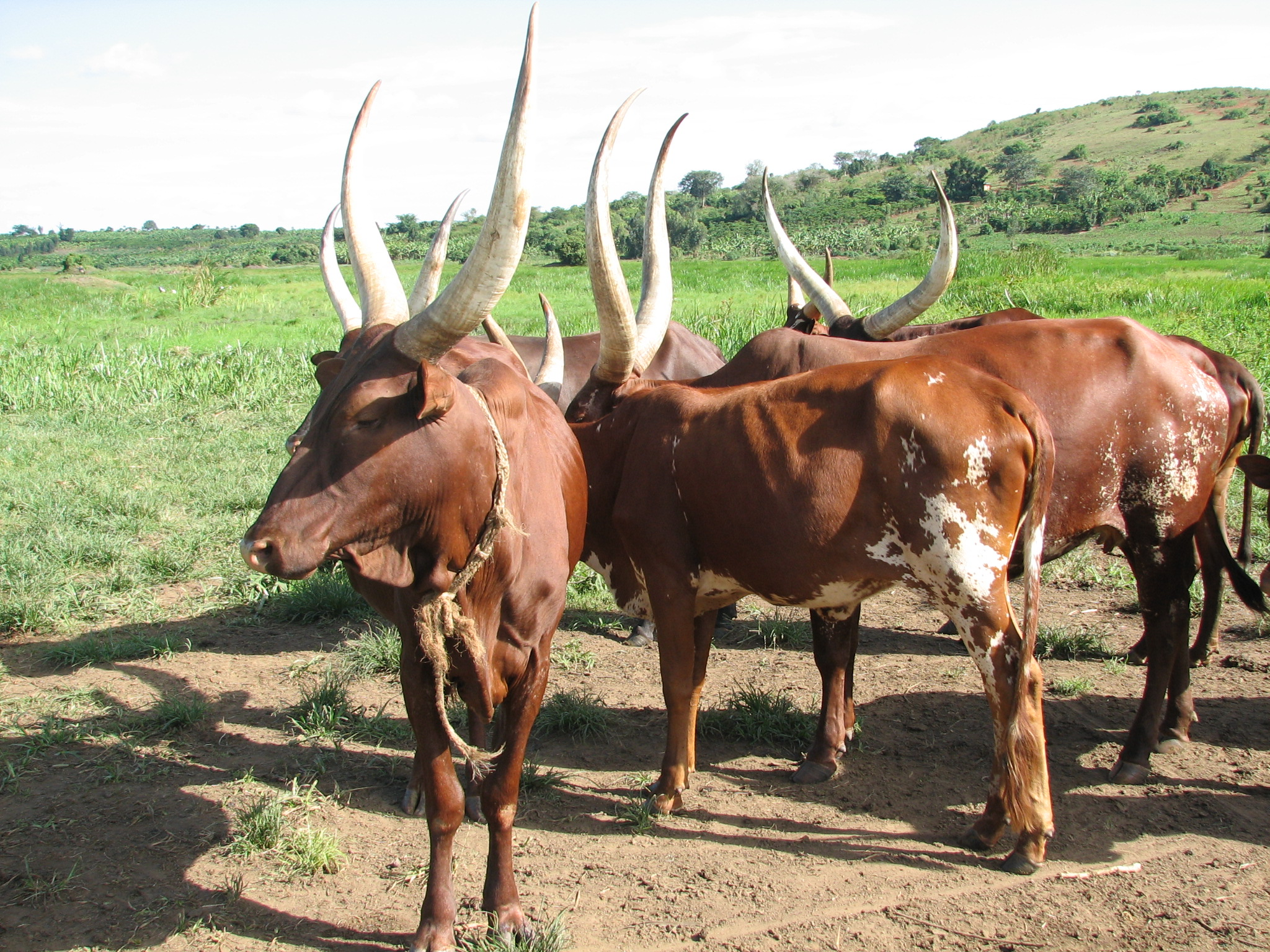 Bahima culture has at least 30 names to distinguish the different hide colours of Ankole cattle and many more to describe the different horn shapes. You can buy an entire book on the subject.